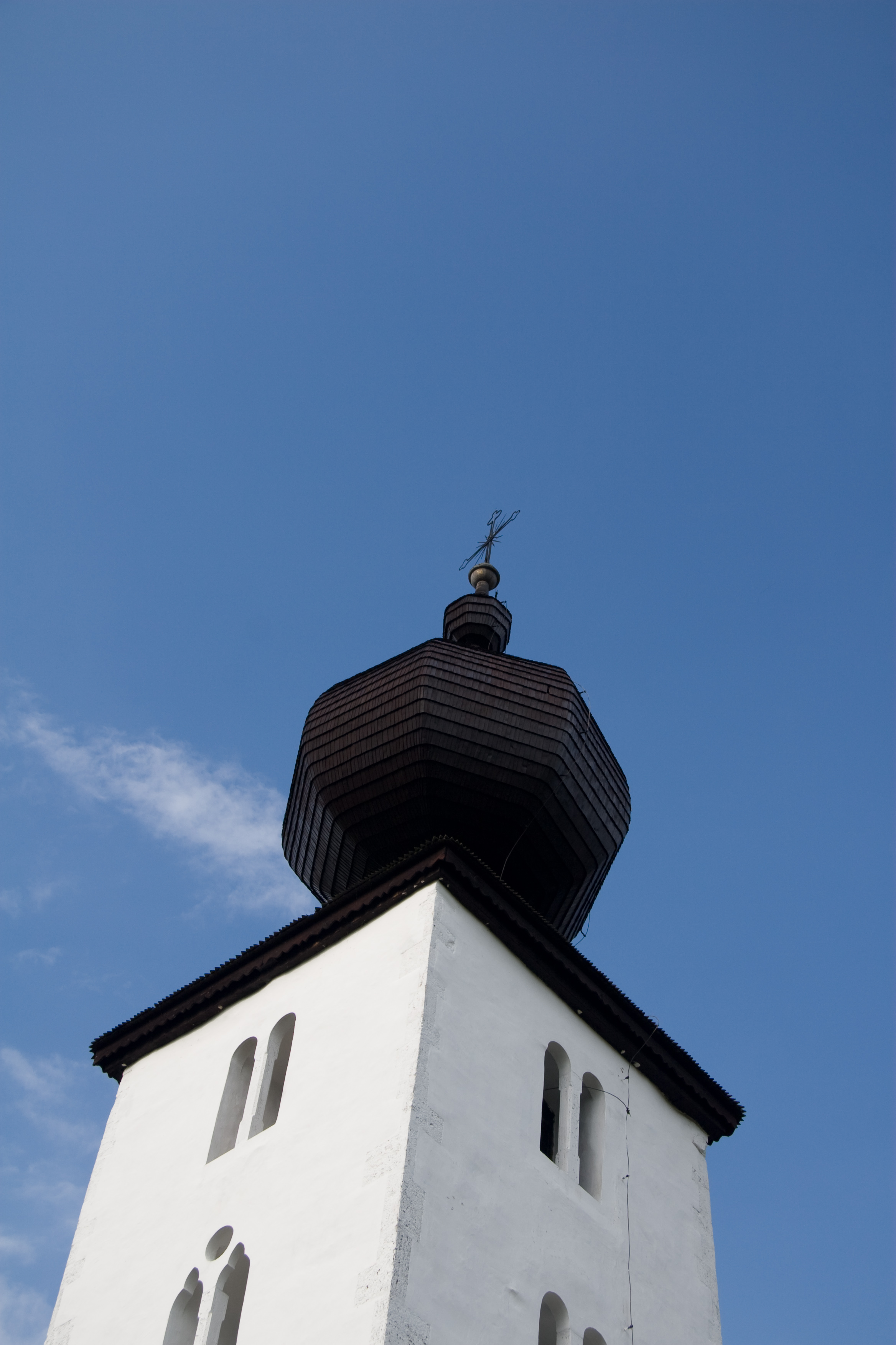 The Church of Holy Spirit in Žehra, Slovakia